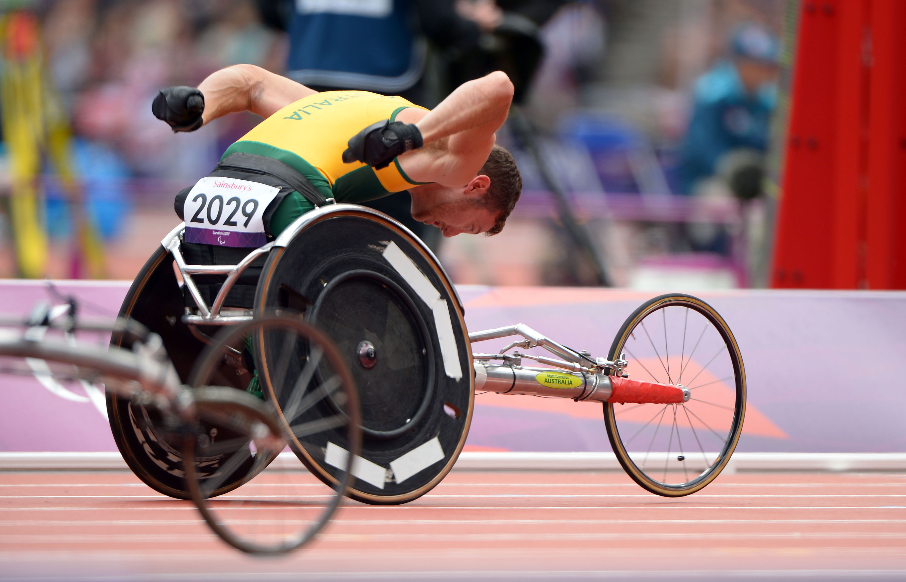 Photograph of Australian Paralympic team member Matt Cameron at the 2012 Summer Paralympic Games in London